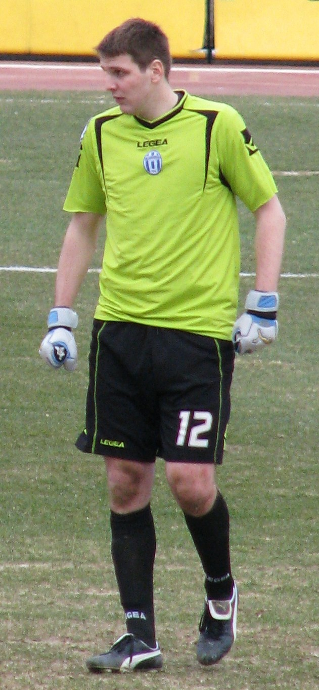 Ivan Kelava